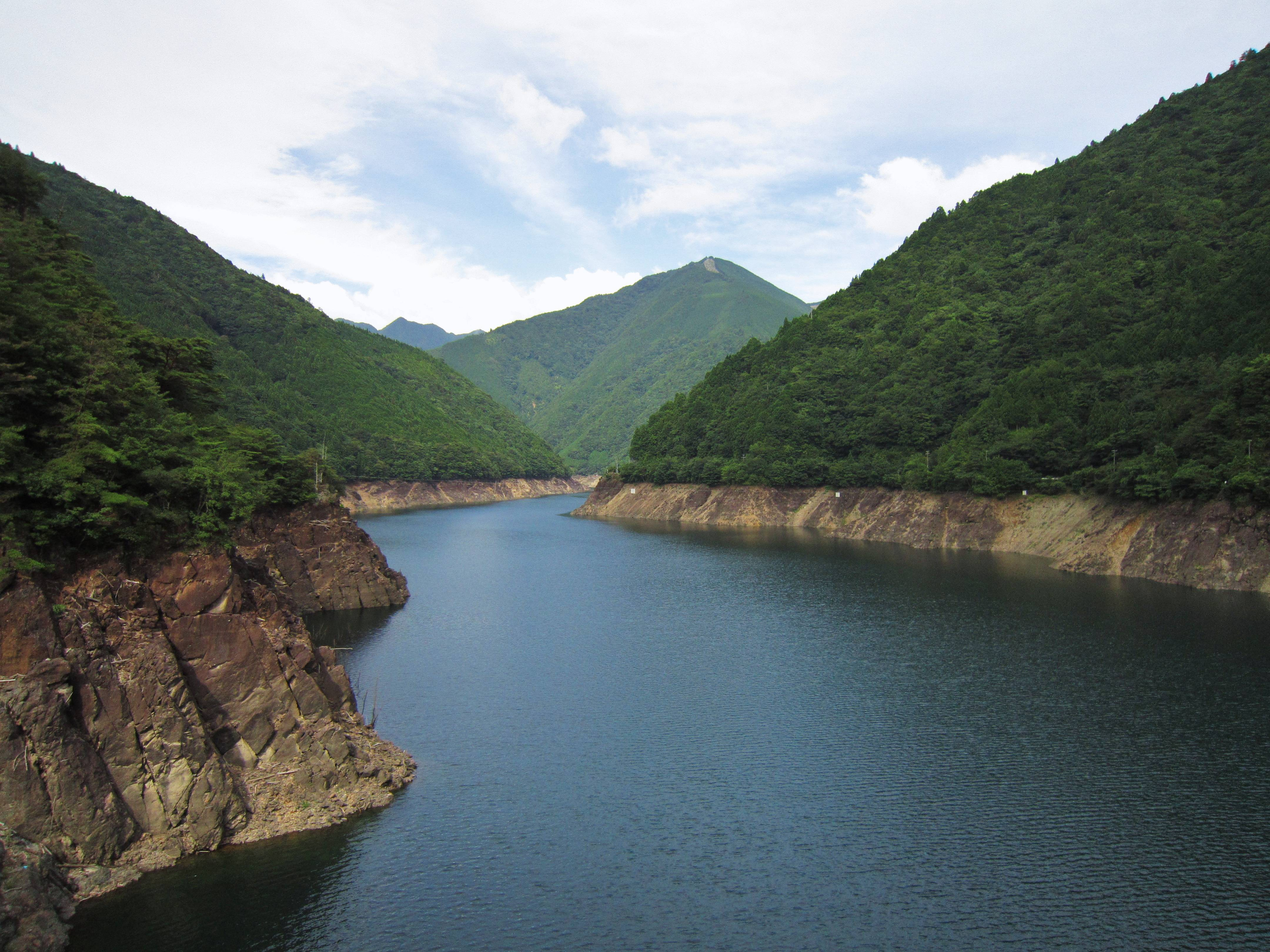 Sakamoto Dam.